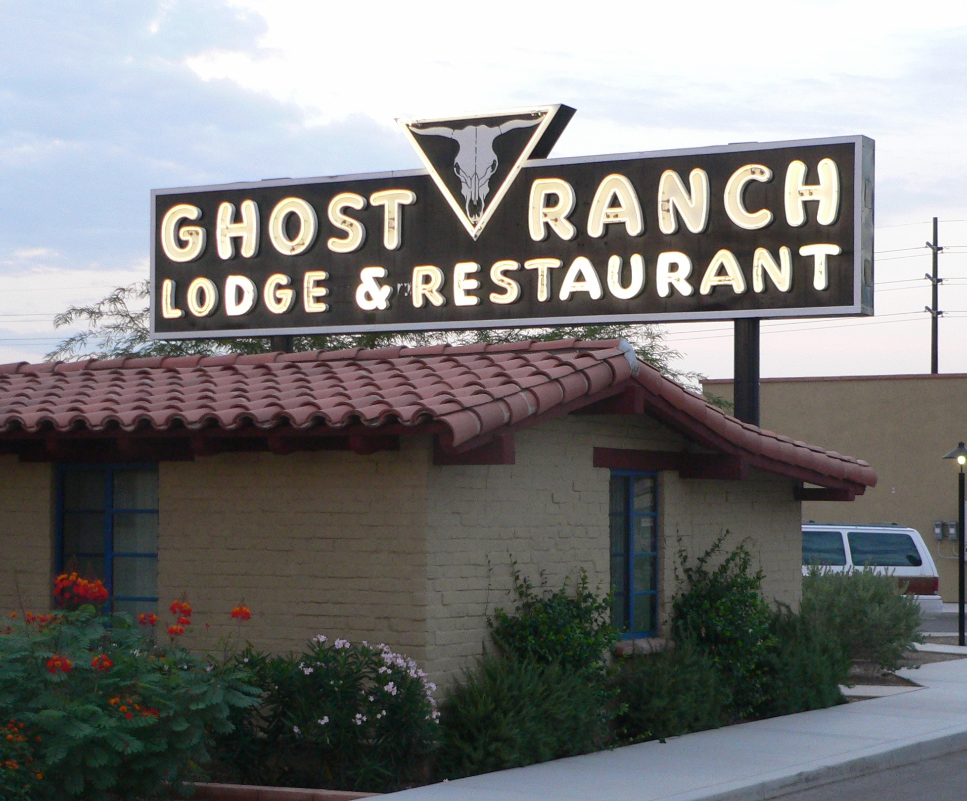 Ghost Ranch Lodge, located at 801 W. Miracle Mile in Tucson, Arizona: sign, seen from the east.